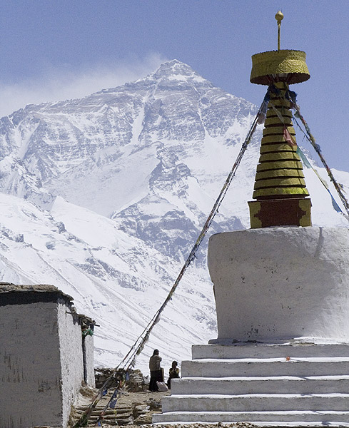 Rongbuk Monastery taken by an Everest Peace Project member. (Everest: A Climb for Peace)